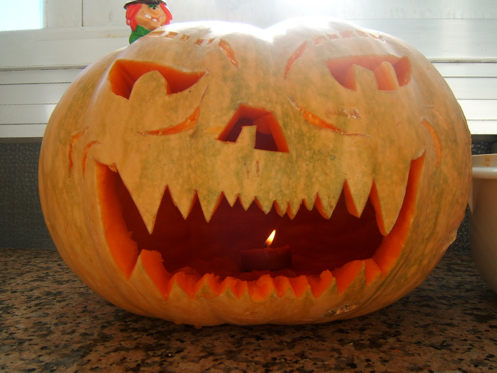 Jack o Lantern made in 2006